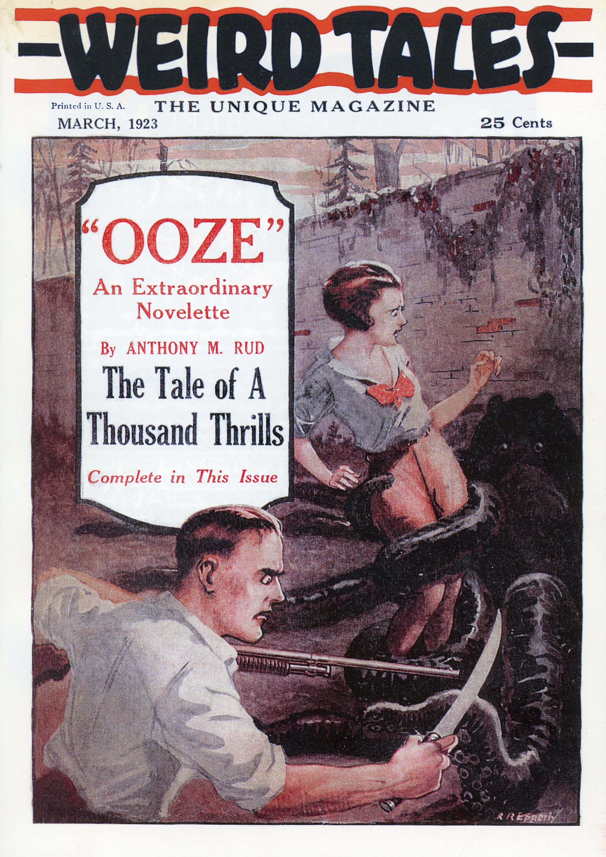 Cover of the pulp magazine Weird Tales (March 1923, vol. 1, no. 1) featuring Ooze by Anthony M. Rud.